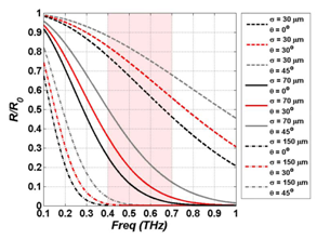 simulation of ryle distribution